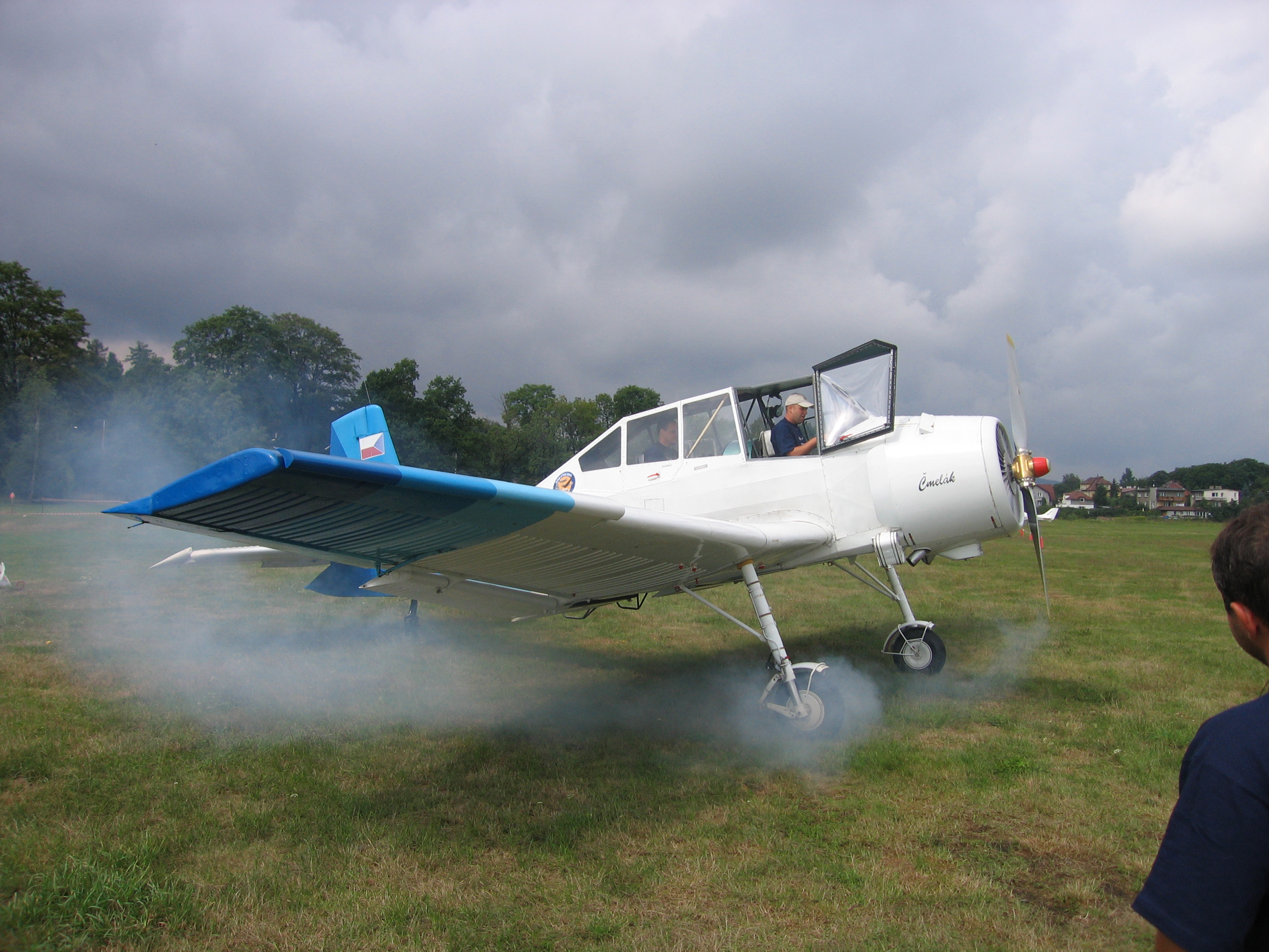 John Richards Private Collection original copyright Radek No restriction on use.